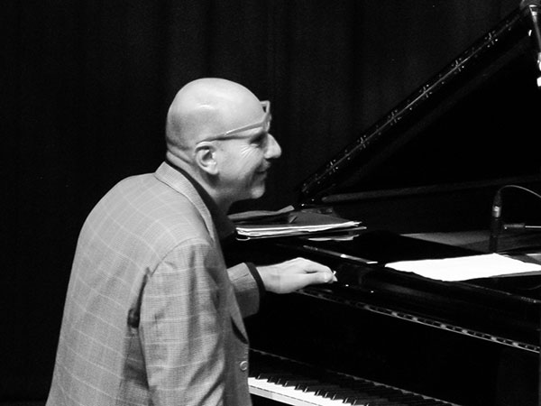 Dado Moroni in Aarhus, Denmark 2013